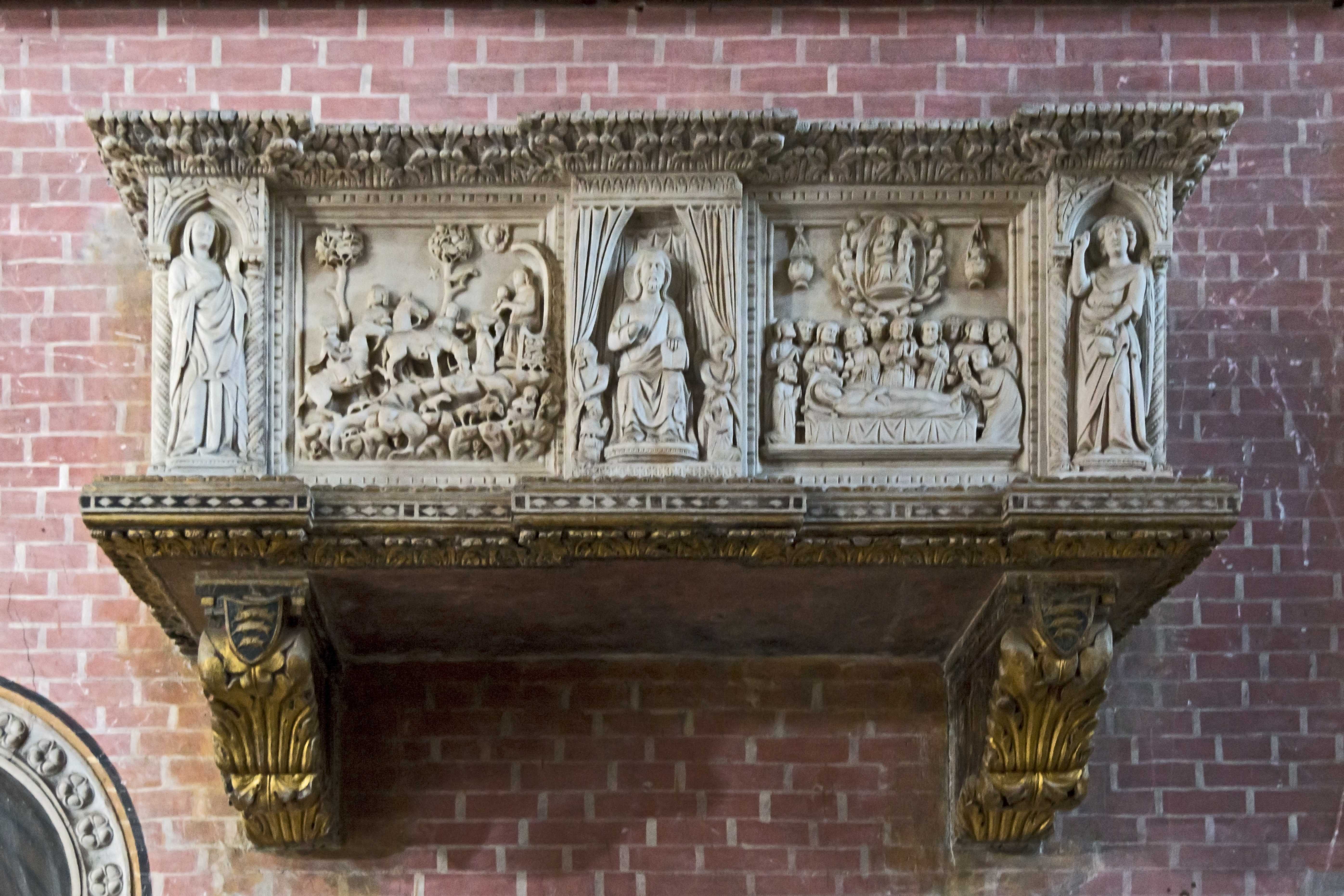 Santi Giovanni e Paolo in Venice. Chapel of Pius V - Monument of the Doge Giovanni Dolfin by sculptor Andrea da San Felice.